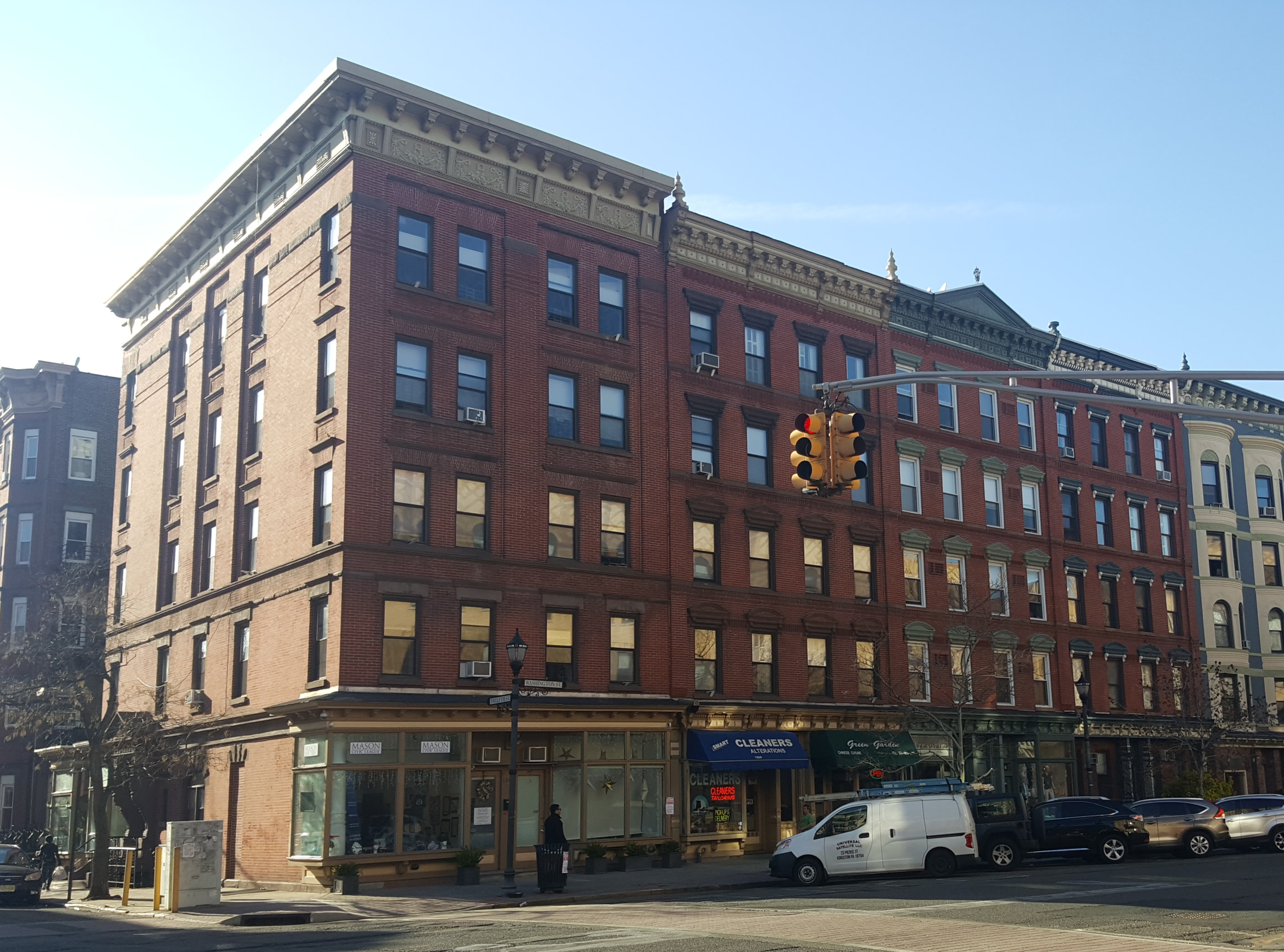 The buildings on the northwest corner of 12th and Washington Streets in Hoboken, New Jersey. Picture taken from the southeast corner of the intersection, looking west-by-northwest.At the bottom left, just to the right of the tree and the pedestrian, you can see the decorative "El Dorado" door.